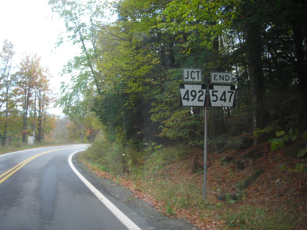 The northern terminus of Pennsylvania State Route 547 at Pennsylvania State Route 492 in Jackson Township.